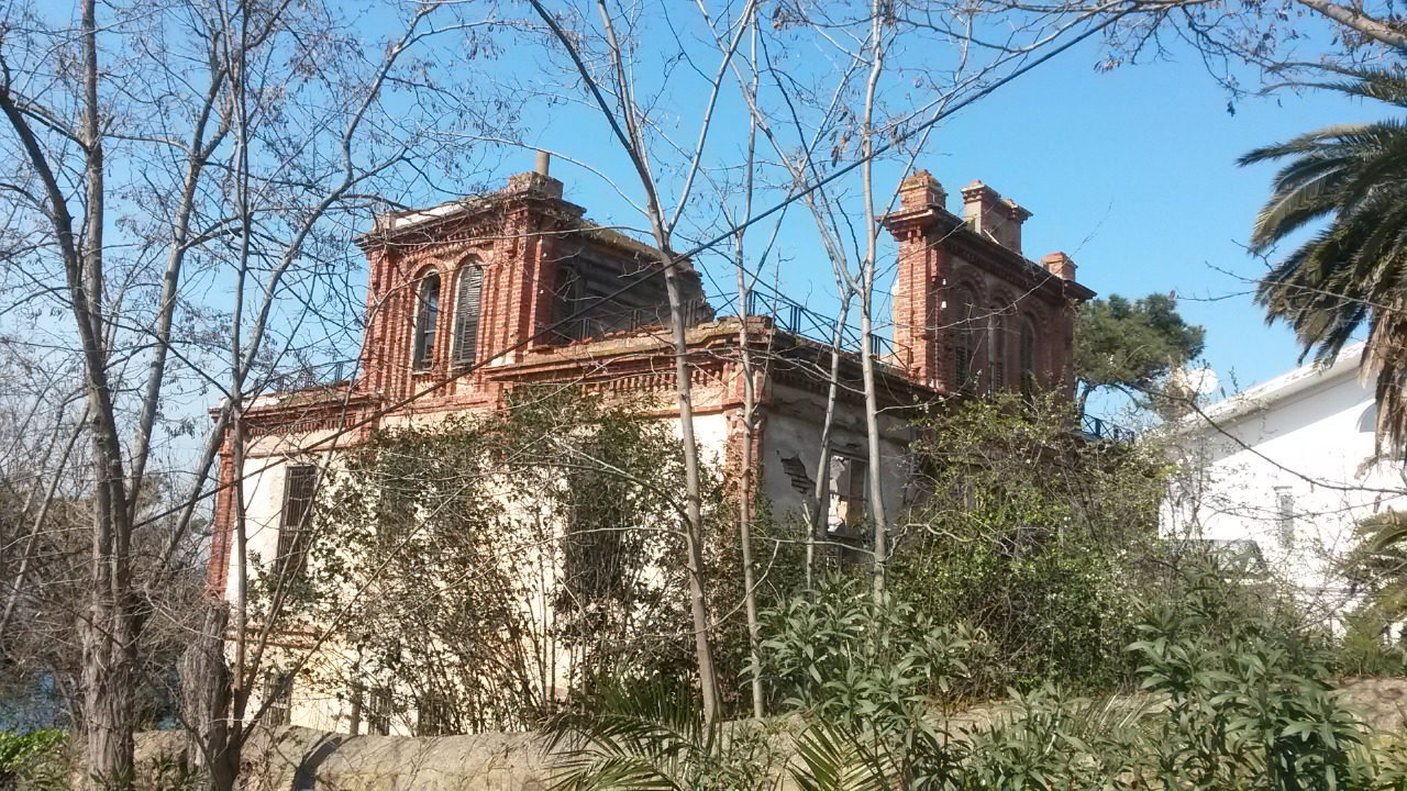 House of Trotzki in Büyükada. What is now a ruin.